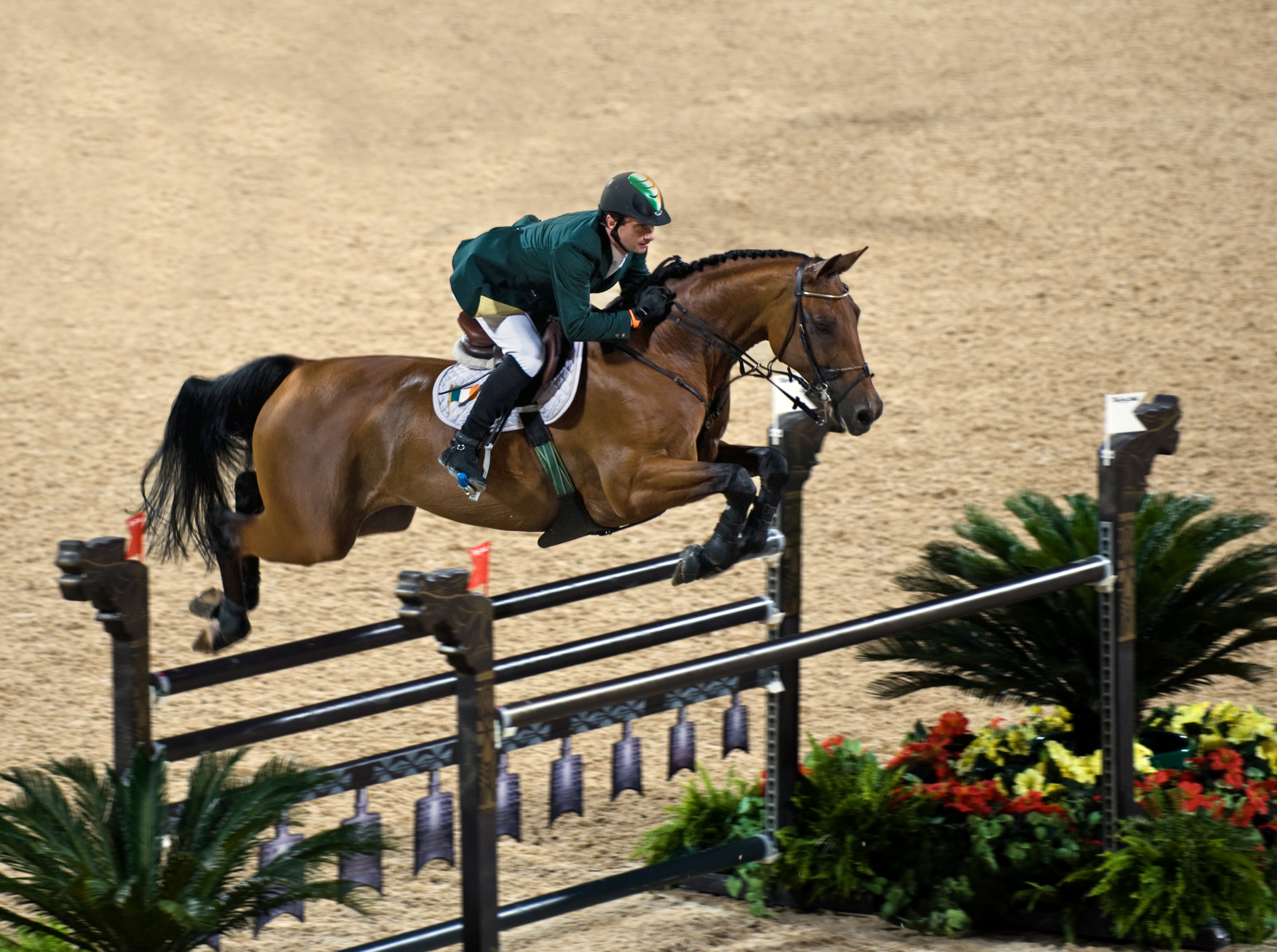 Olympic Equestrian Jumping in Hong Kong. Lantinus (1998 bay gelding by Landkönig) and rider Denis Lynch.